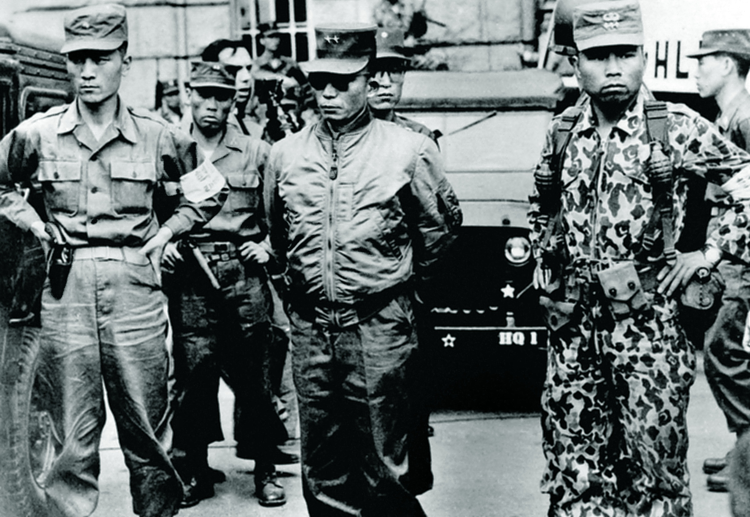 1961. 5.16 Park Jung Hee